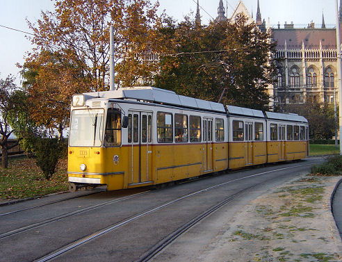 Tram line 2 in Budapest, Hungary